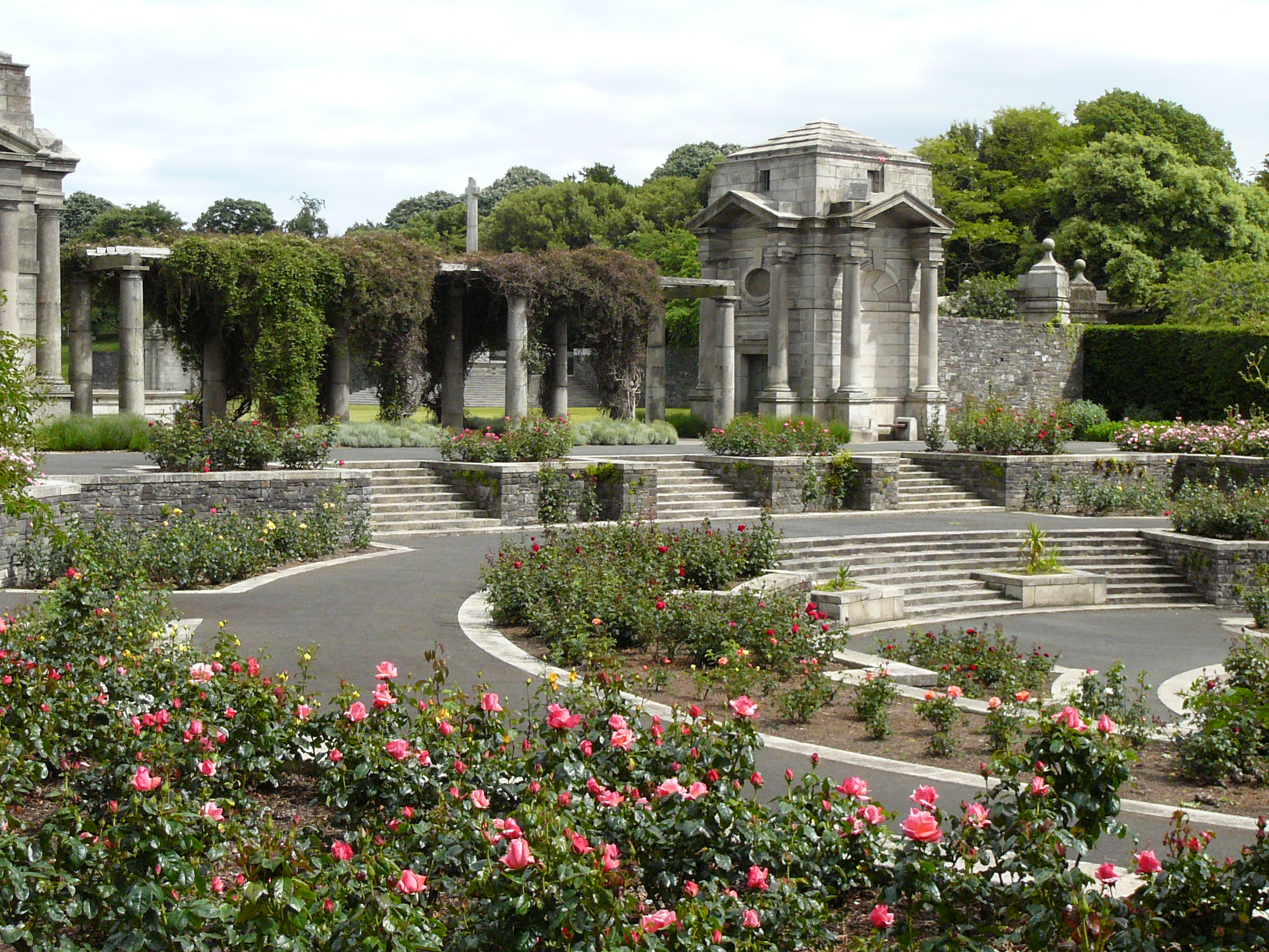 Irish National War Memorial Gardens, Dublin, Ireland, left view setting of the circular Rose Gardens.